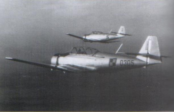 Para TS- 8 Bies B-II z 64 Lotniczego Pułku Szkolnego w Przasnyszu w locie po trasie 0305 , 0414, 1960